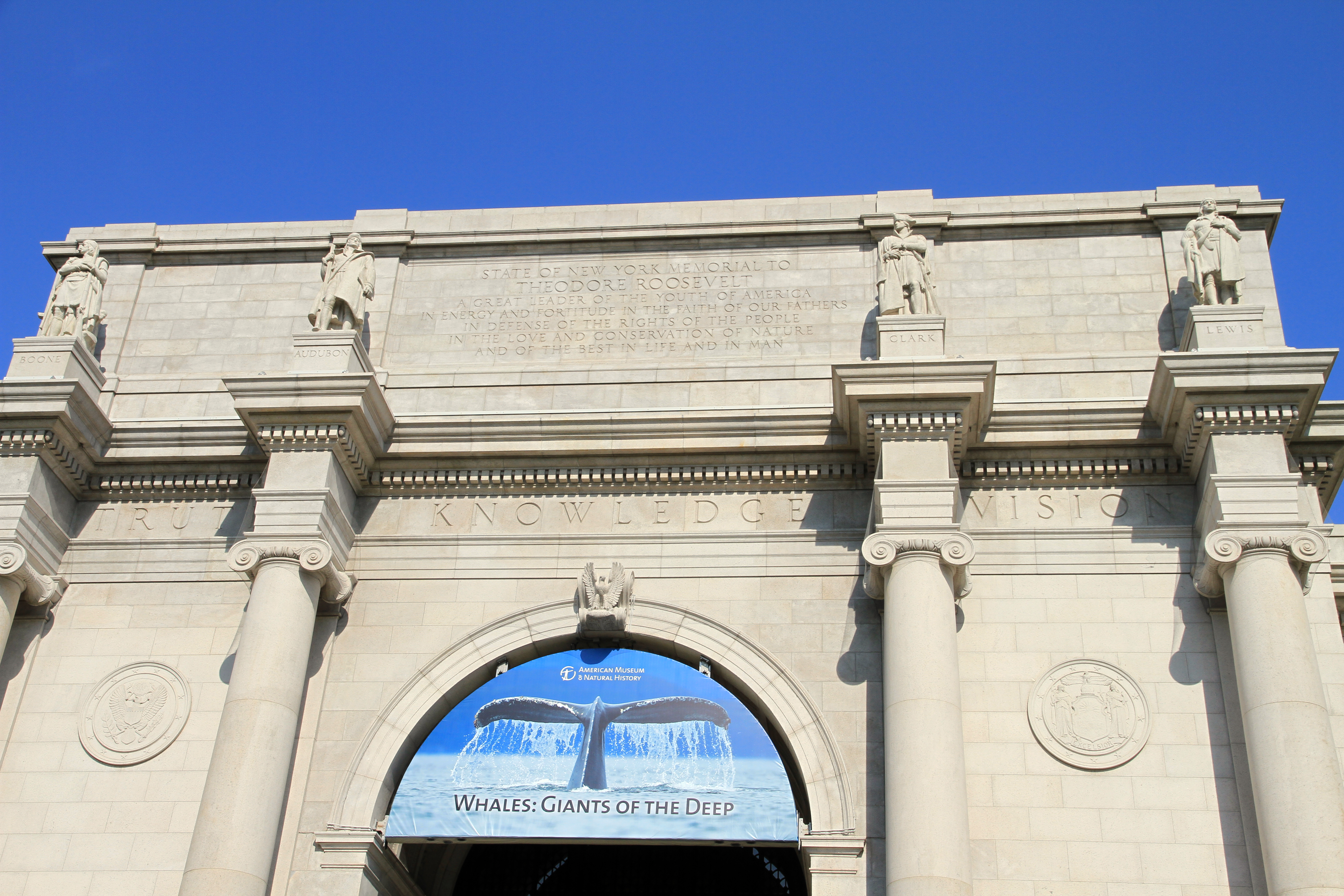 American Museum of Natural History